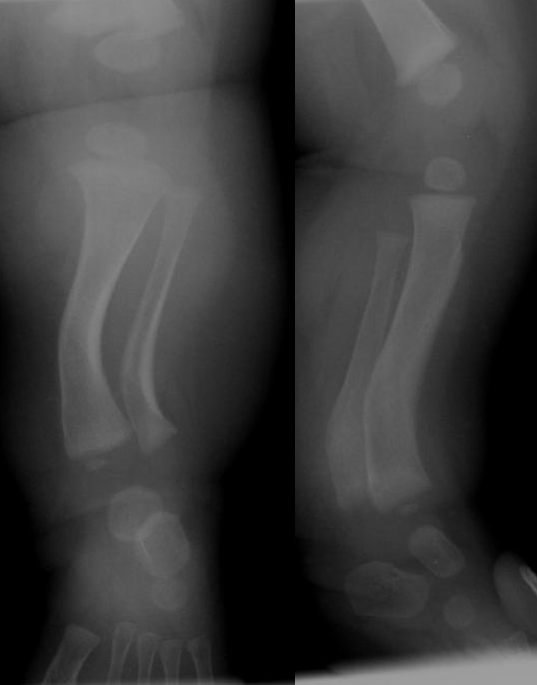 Tibia recurvata Crus valgum et recurvatum